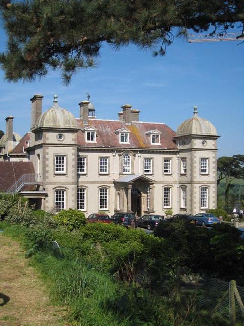 Fowey Hall hotel Built in 1899 by Sir Charles Hanson, a former Lord Mayor of London, Fowey Hall regularly hosted royal visitors and it was the inspiration for Toad Hall in The Wind in the Willows. It is now a luxury family hotel and every May hosts the Daphne Du Maurier literary festival.